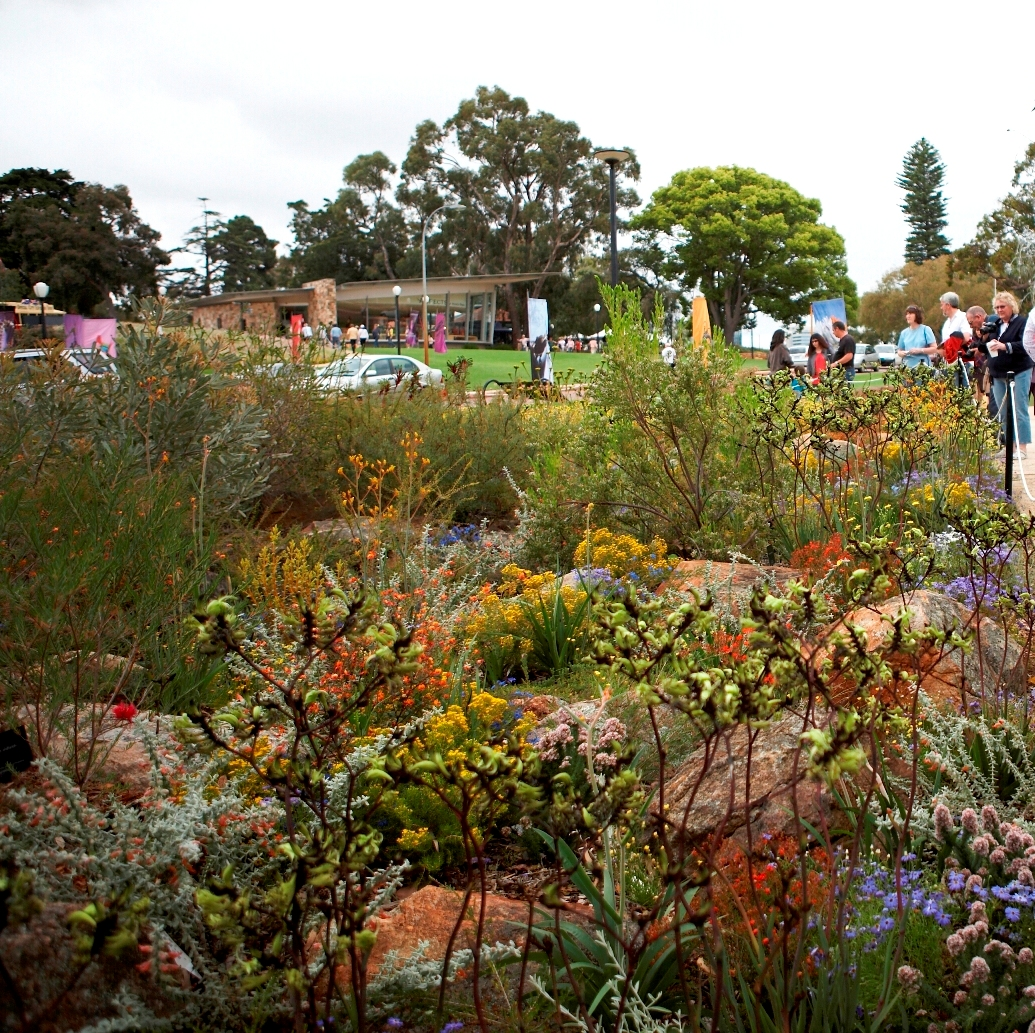 Botanic Garden Walk